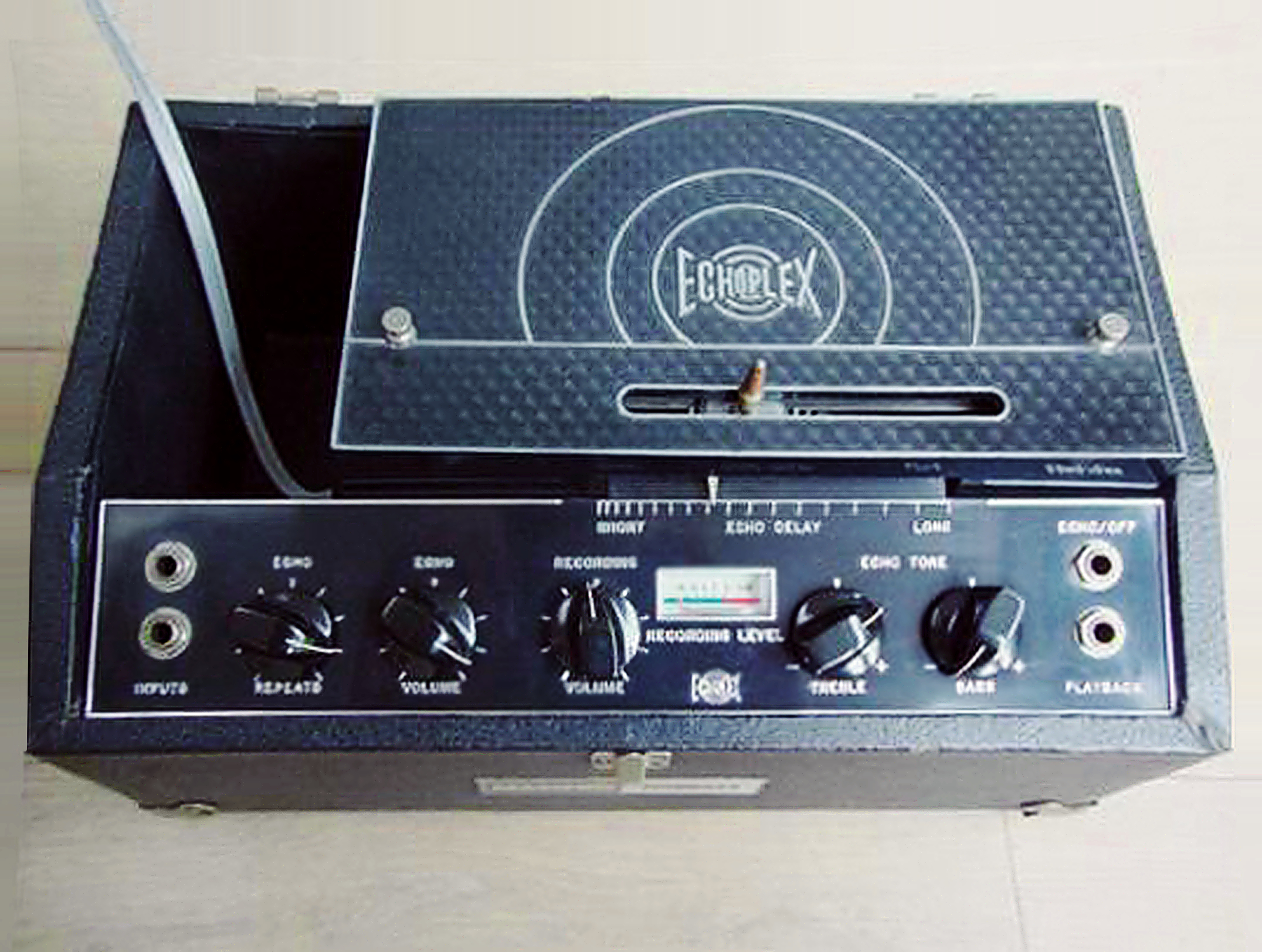 Rare Echoplex EP4 with a mechanical meter